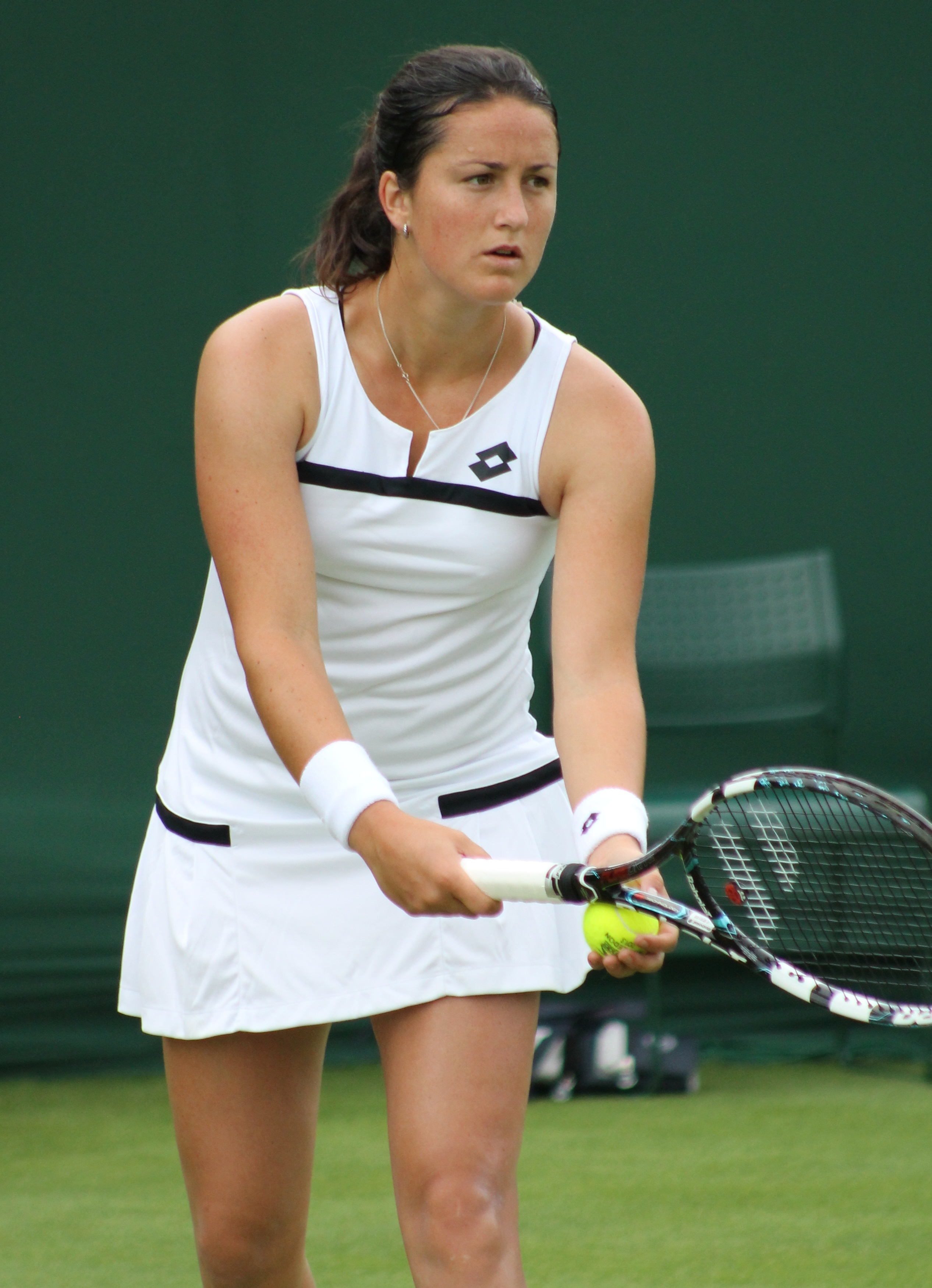 Lara Arruabarrena at the 2013 Wimbledon Championships